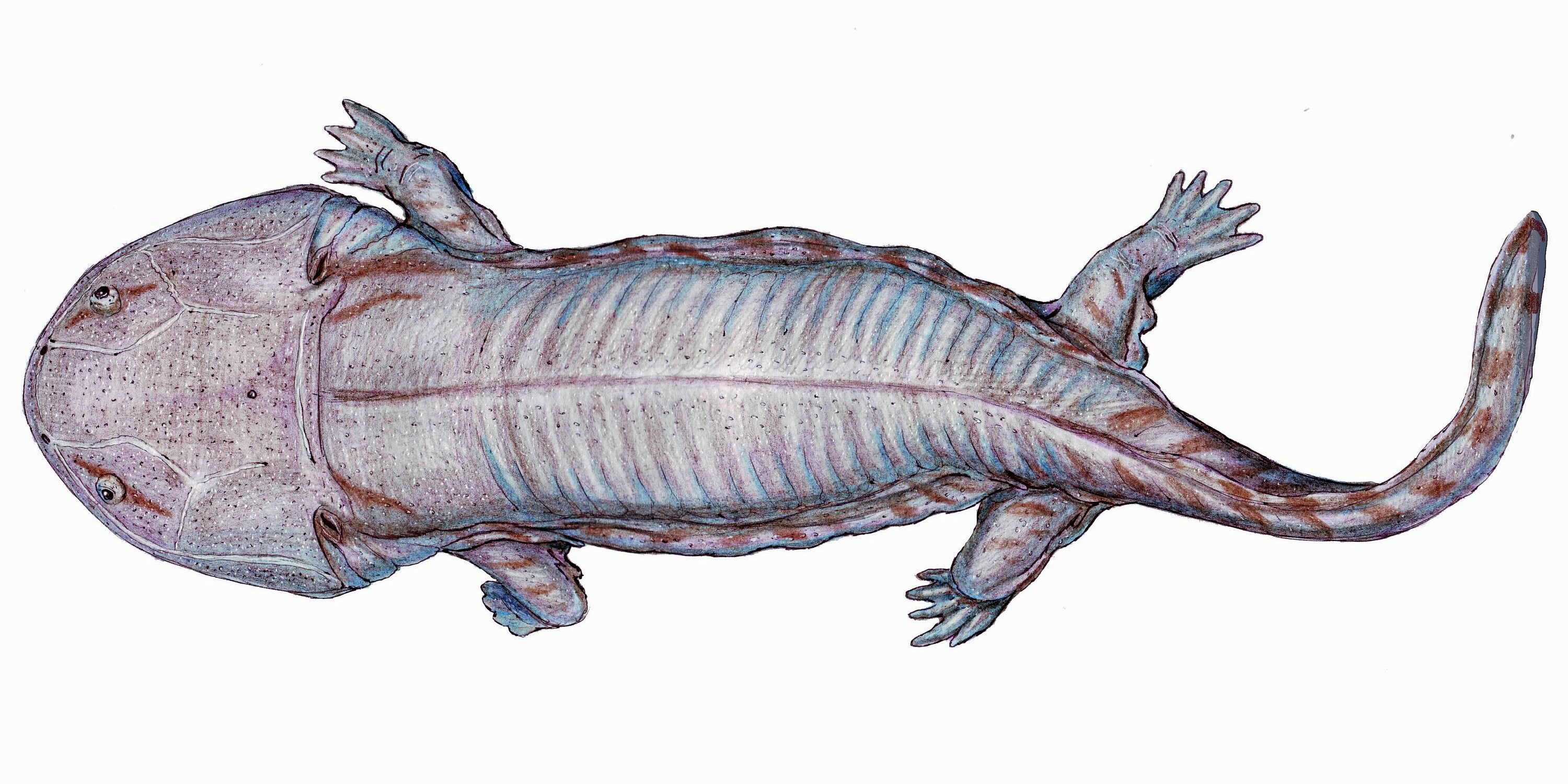 Siderops kehli - giant brachyopid from Early Jurassic of Australia